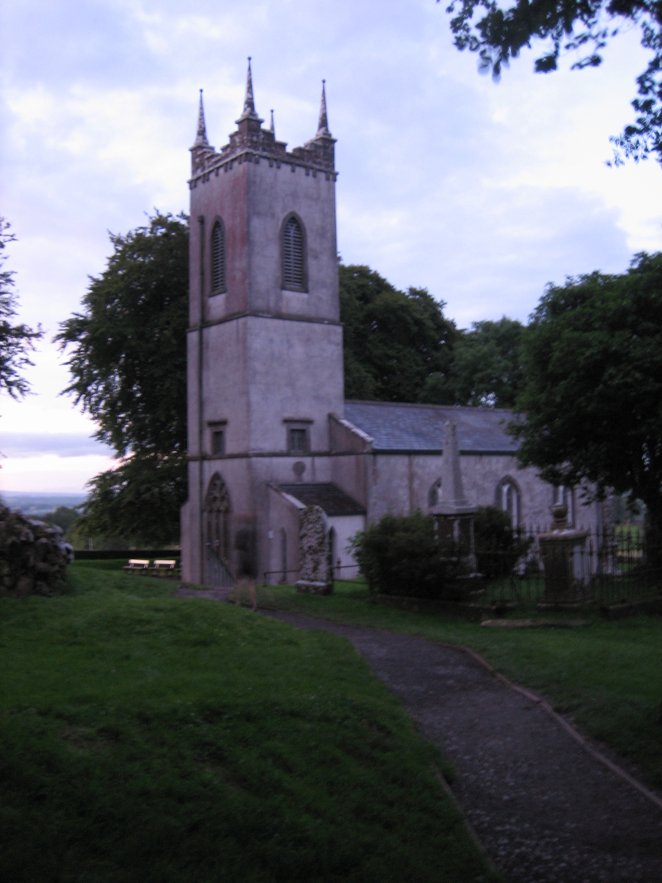 Church on the Hill of Tara, Co.Meath, Ireland.